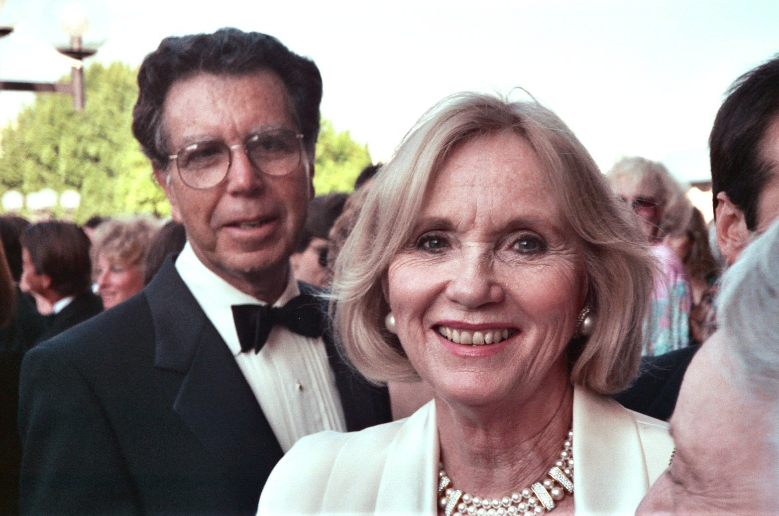 1990 Emmy Awards I first met Eva Marie Saint in 1974 when she was rehearsing "The First Woman President" at CBS Television City on stage 31. Character actor Nelson Olmsted brought me and my friend Greg to the sest. Saint's co-star was Richard Basehart, who we ate lunch with in the commissary at CBS.